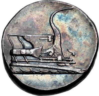 PERSIA, Achaemenid Empire. temp. Artaxerxes III to Darios III. Circa 350-333 BC. AR Tetradrachm (24.5mm, 15.13 g, 8h). Chian standard. Halikarnassos mint(?). Persian king, wearing kidaris and kandys, in kneeling-running stance right, holding spear in right hand, bow in left / Prow of galley right, with hornlike akrostolion, fighting platform decorated with labrys, proembolon (upper battering ram) decorated with dolphin and an embolom (principal three pronged battering ram); wave pattern below; to right, small dolphin diagonally downward right.